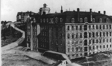 Séminaire de Chicoutimi.The building was destroy by fire on 1912.